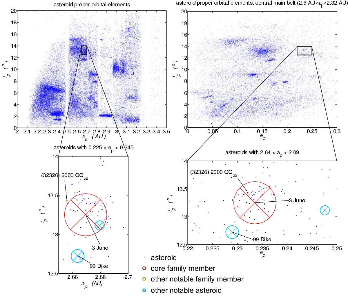 Diagrams showing the location and characteristics of the Juno clump of asteroids. Circles show asteroid sizes to scale (mean diameter), when present. In the top diagrams, the proper orbital elements are plotted (inclination ip vs. semi-major axis ap on the left, and inclination ip vs. eccentricity ep on the right) for numbered asteroids in the main belt. In the bottom enlargements, one has: core family members (shown in red) are those identified by the 1995 Zappala (V. Zappala et al, Icarus Vol. 116, p. 291 (1995)) HCM method analysis. The data set is here. additional significant family asteroids (shown in orange). additional significant non-family asteroids (shown in light blue). numbered asteroids in general (shown as small blue dots), from the AstDys database. The location of asteroids that are very large and/or explicitly named on the plot is shown by a light cross within the circle. Asteroid diameters were obtained from two sources: (thick circles): From the IRAS survey, when available (data set here). (thin circles): Otherwise, by assuming an albedo of 0.238 (value for en:3 Juno), and estimating from absolute magnitudes from the AstOrb database here. The diagrams were created by me (Piotr Deuar) using proper element data for 96944 minor planets, which was obtained from the AstDys site. Data was dated March 2005, calculation was by Z. Knezevic and A. Milani. The top left plot is a slightly modified reduced version of Image:Asteroid_proper_elements_i_vs_a.png.